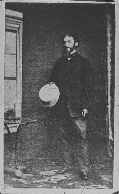 Charles J. Tyers reproduced from Nat. Lib. Aust.